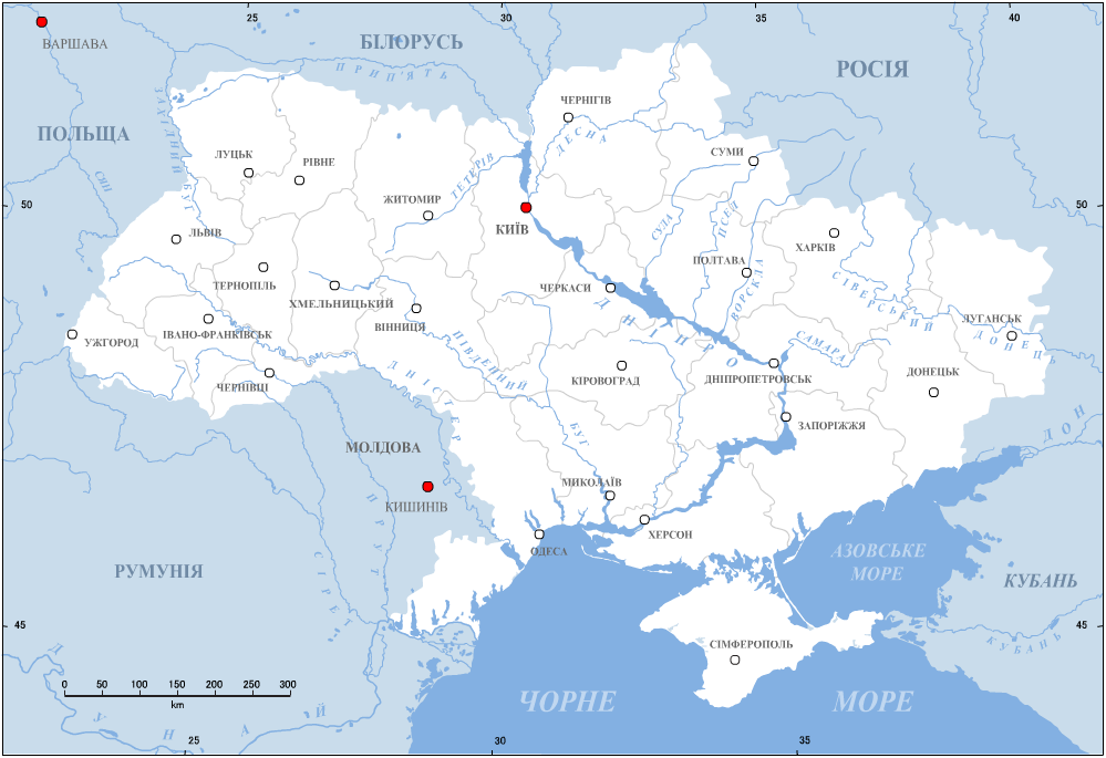 "Blank" white map of Ukraine with main cities, rivers and light boundaries of oblasts of Ukraine. Based on File:Ukraine-Donshchyna.png and File:Ukraine-Budzhak.png by Alex Tora. Two mistakes were corrected.